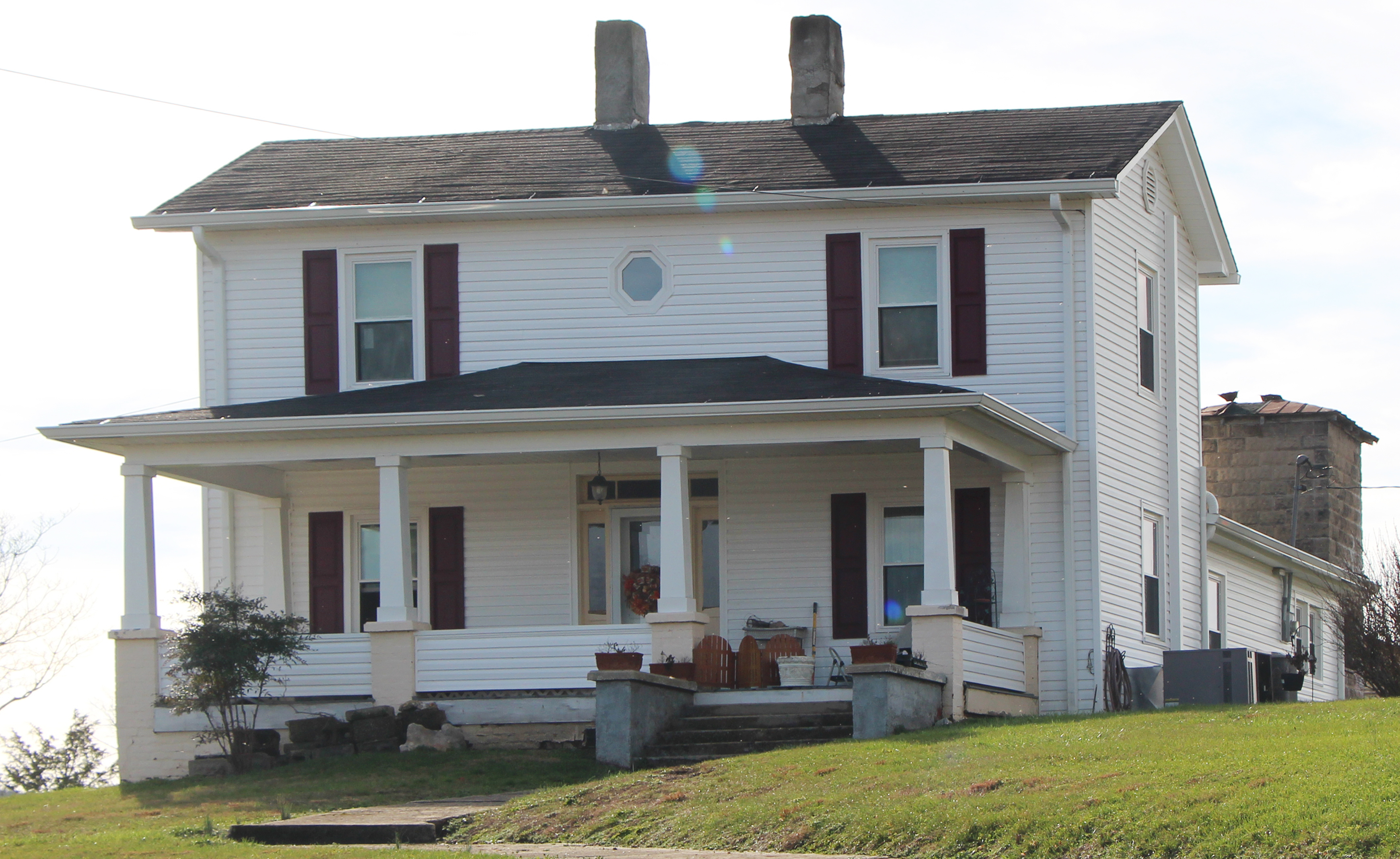 Bulls Gap, 105 Church St., TN